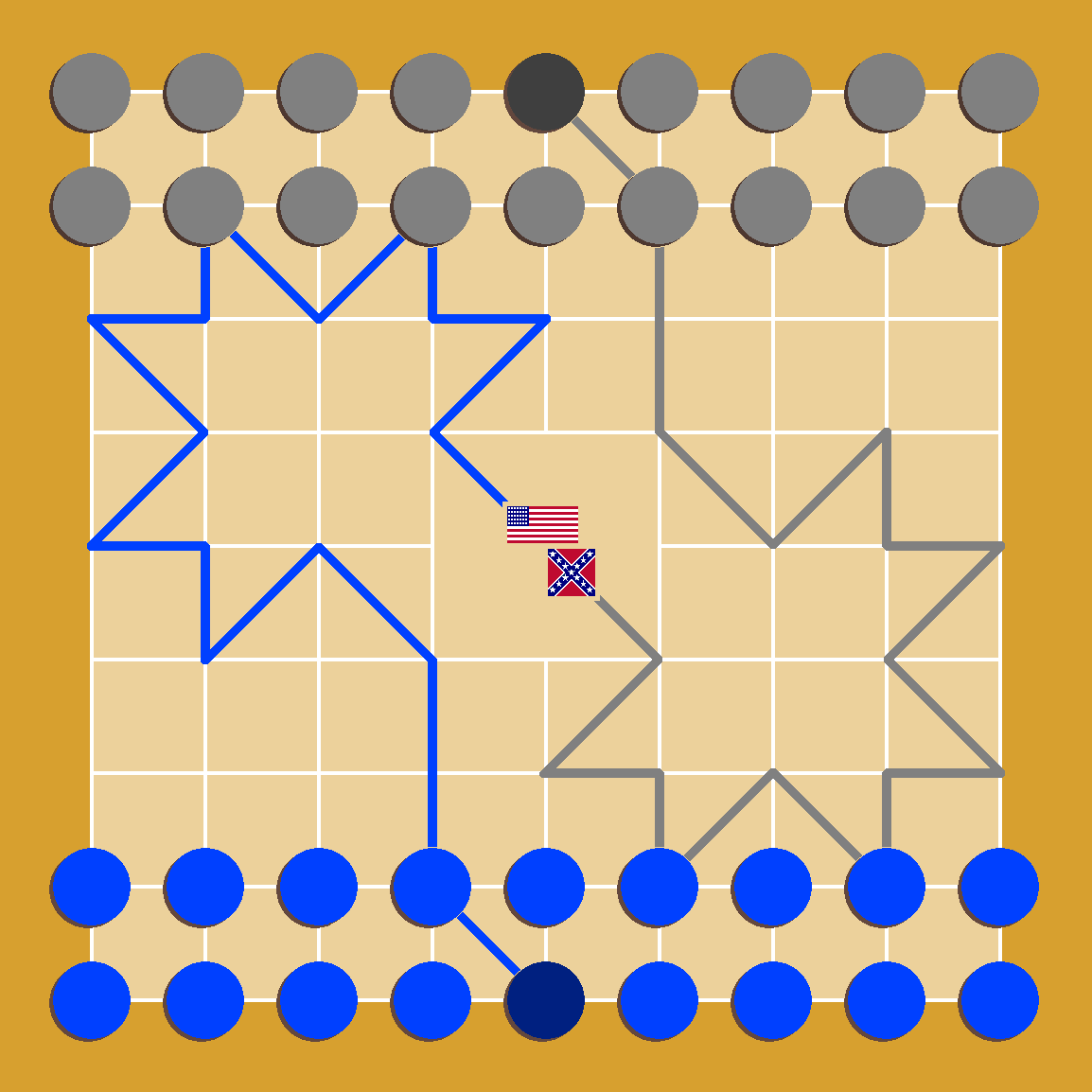 Blue & Gray init config. All done in MS PAINT.